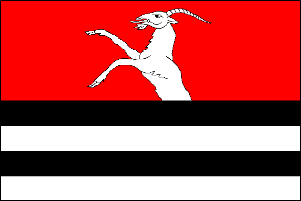 Municipal flag of Bystřice pod Hostýnem town, Kroměříž District, Czech Republic.